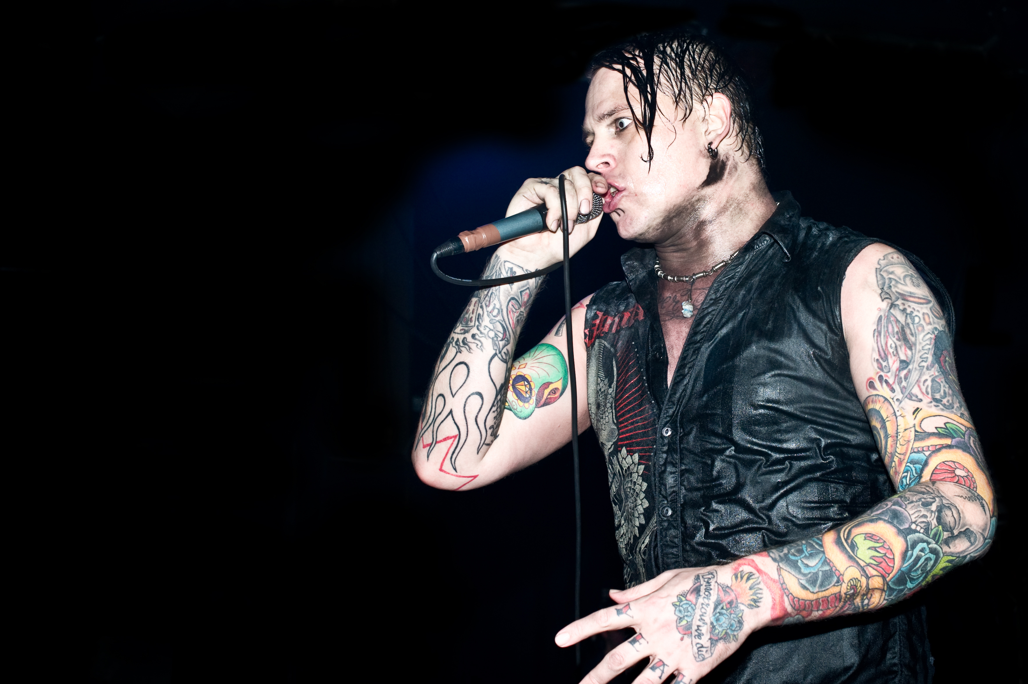 Andy LaPlegua leadsinger of Combichrist playing on the danish venue "Forbrændingen", February 17, 2010.